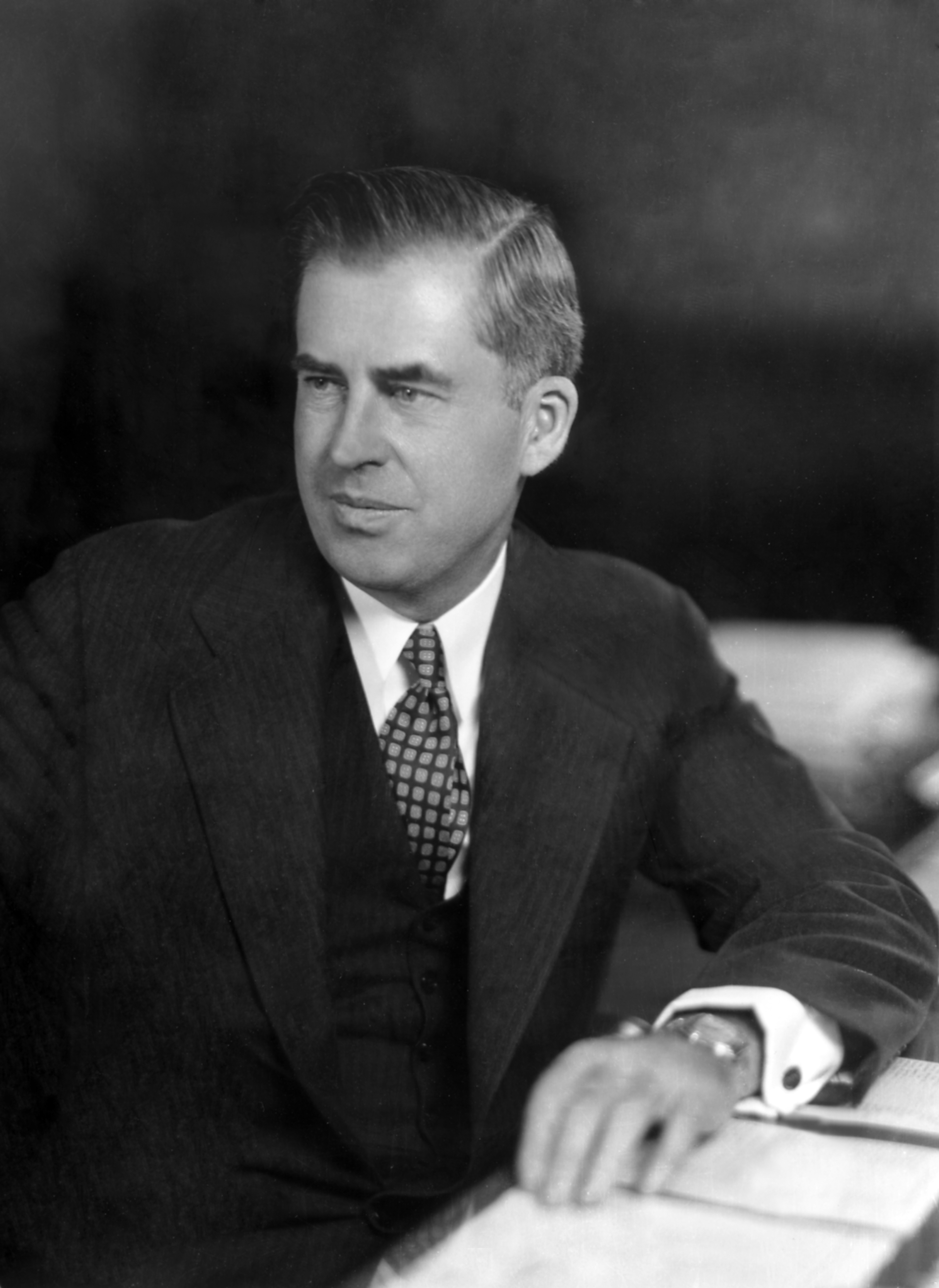 Henry A. Wallace, Vice President of the United States.